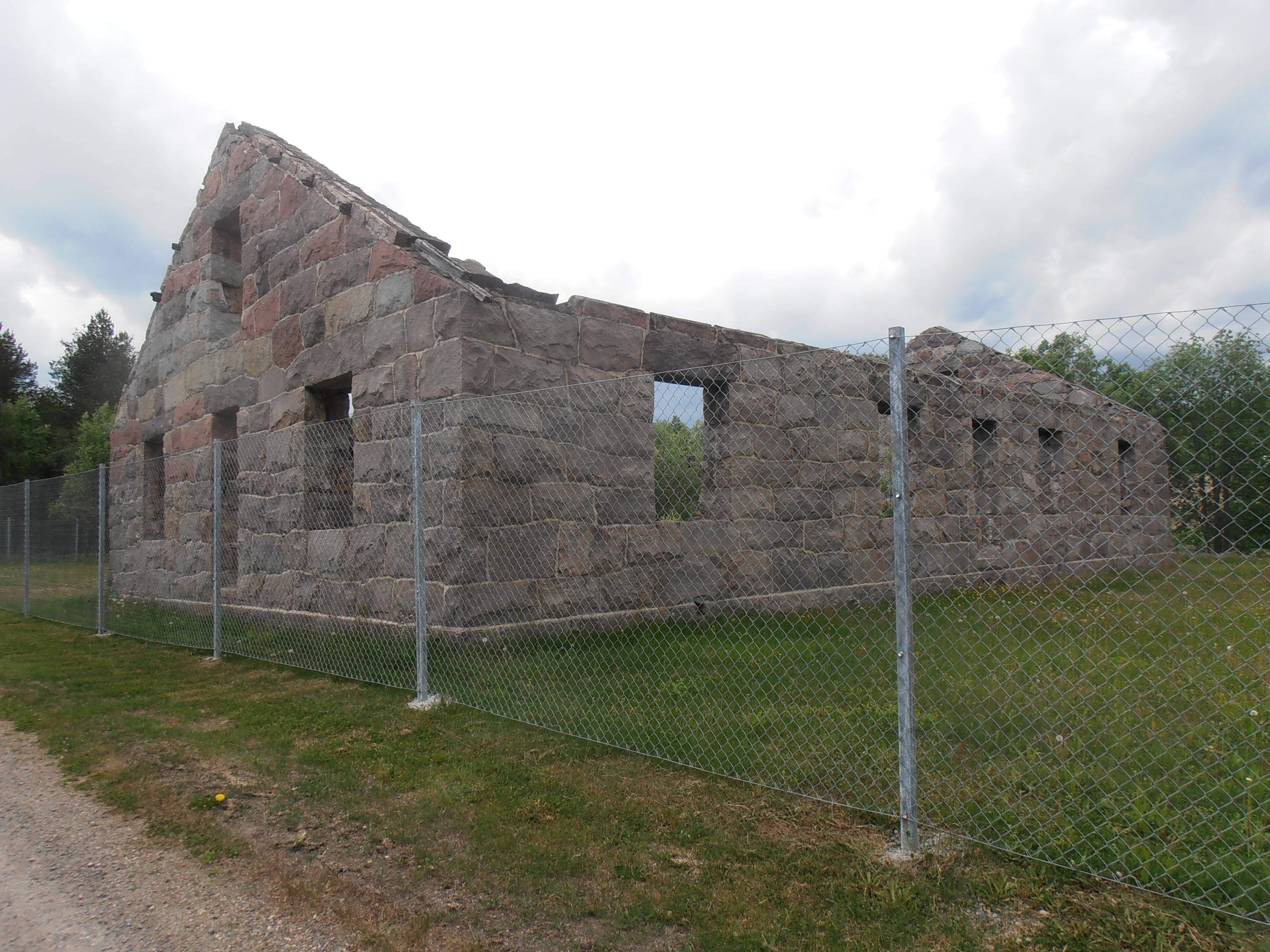 The ruin after a barrack, built by English miners in 1897, in the English district on Kilen in Malmberget